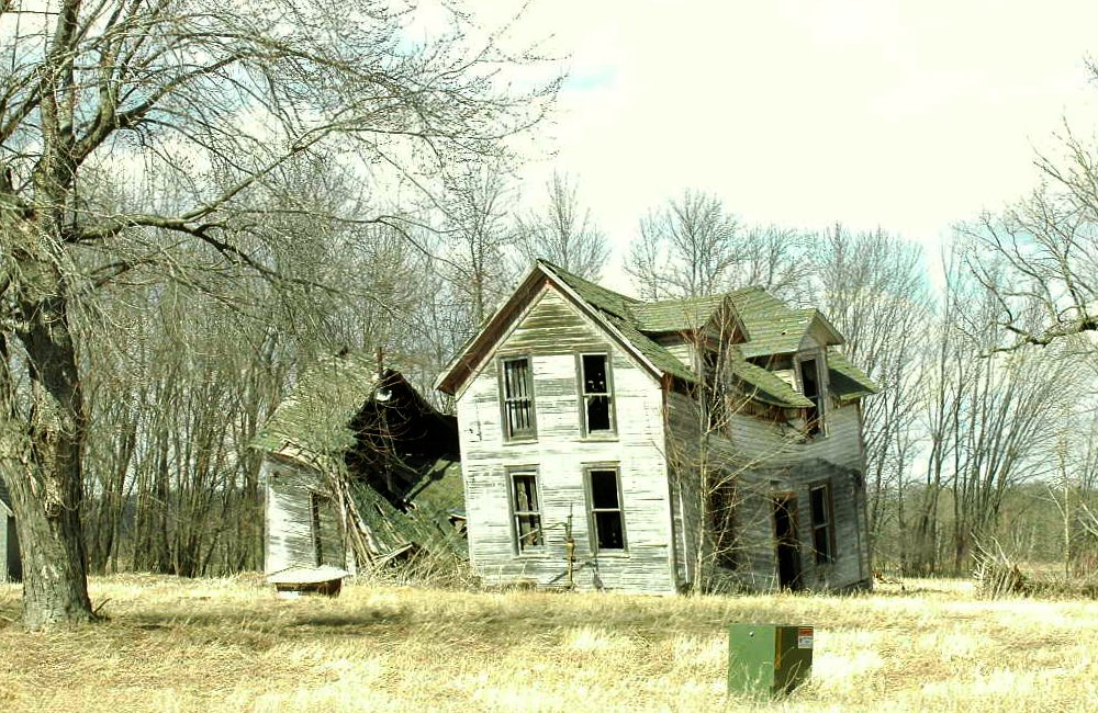 An old abandoned farm house in Dunn county.